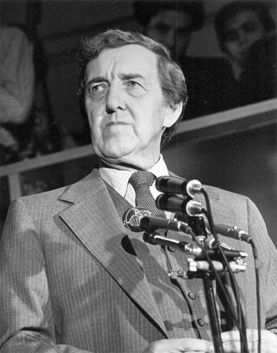 Edmund Muskie, Maine politician